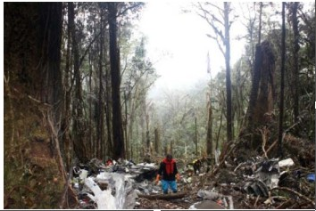 The crash site of Trigana Air Service Flight 267 in mountainous terrain in Papua